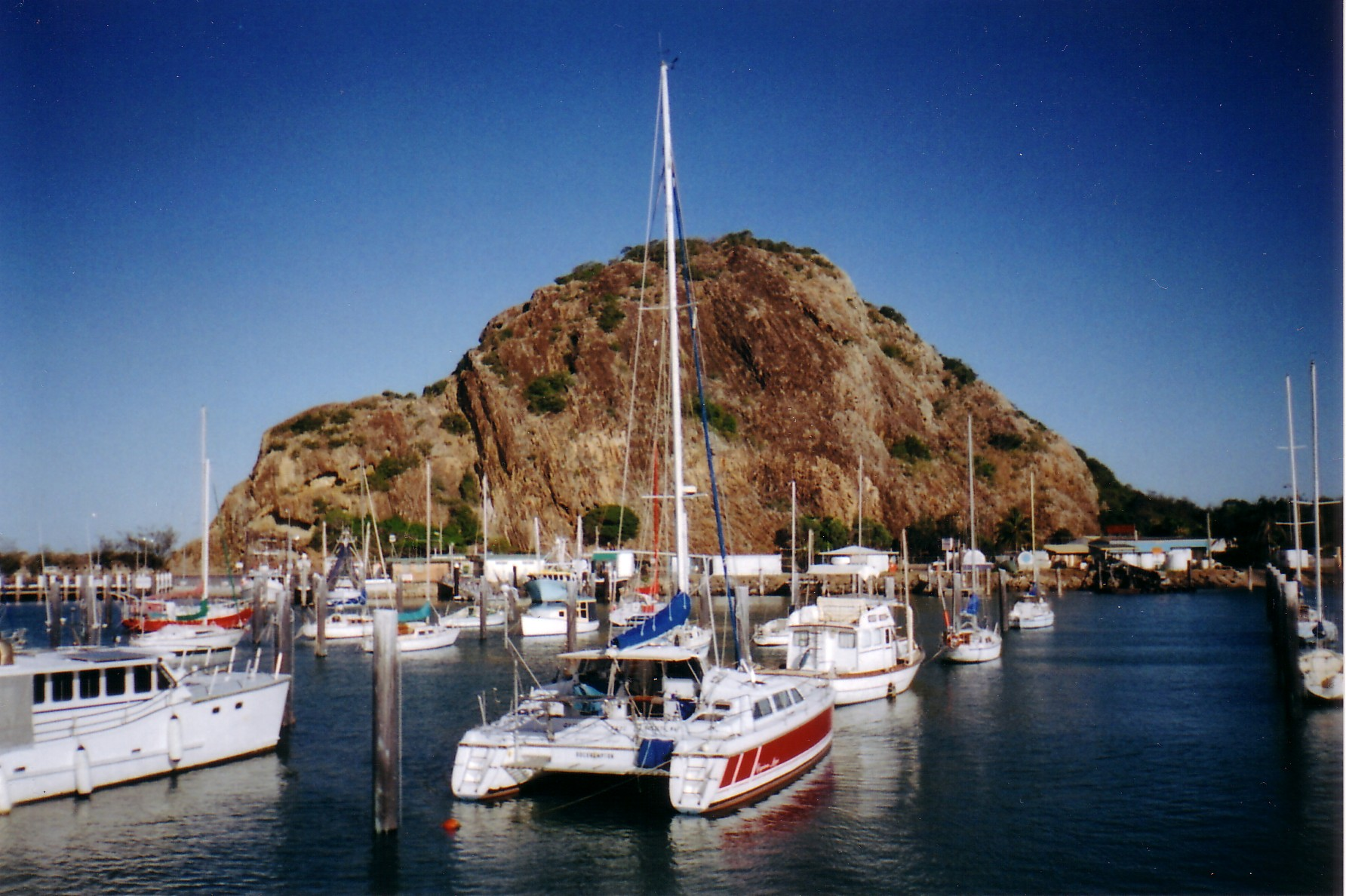 Picture of Rosslyn Bay Harbour in Keppel Bay on the Capricorn Coast, Queensland.